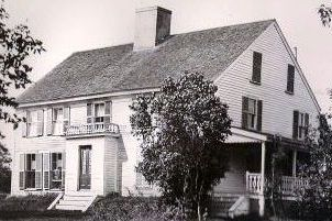 Photograph of the Solomon Kimball House, Wenham, MA, taken in 1900